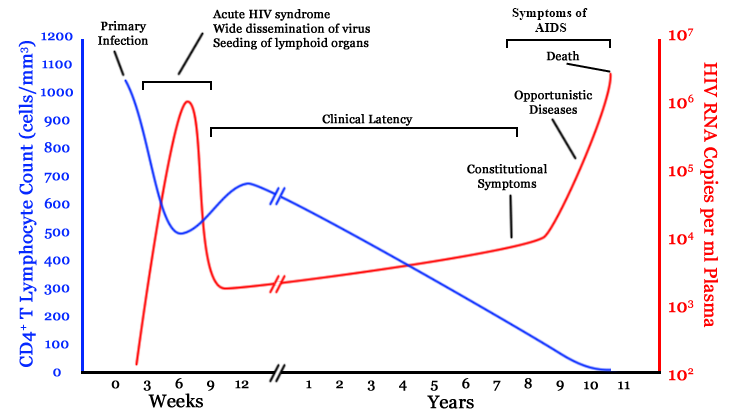 Graph showing HIV copies and CD4 counts in a human over the course of a treatment-naive HIV infection